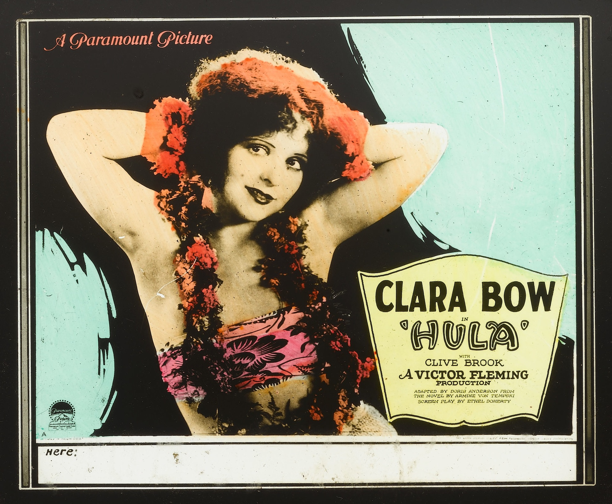 Lantern slide advertisement for the American romantic comedy film Hula (1927), without a copyright notice.